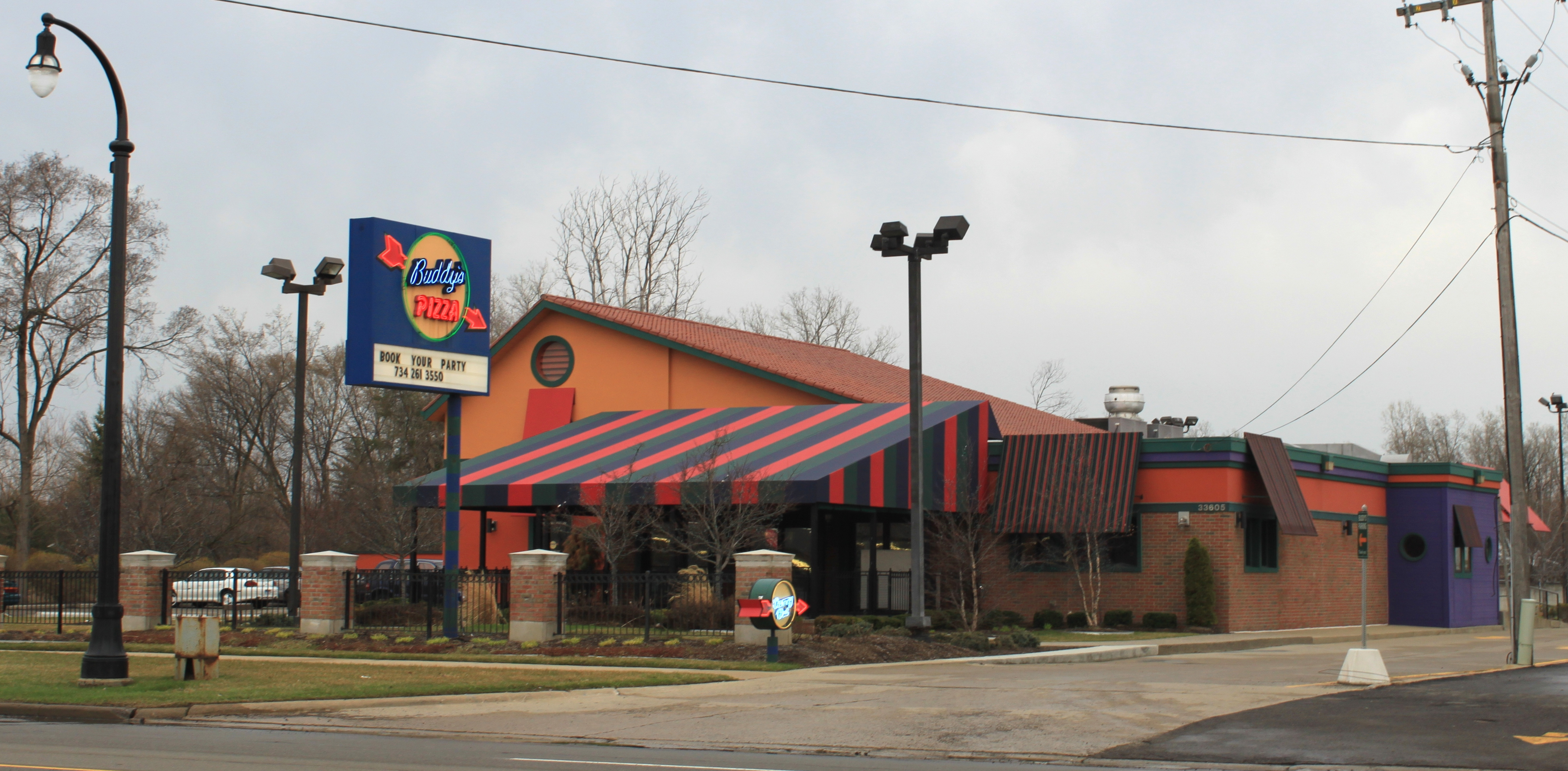 Buddy's Pizza restaurant, 33605 Plymouth Road, Livonia, Michigan.